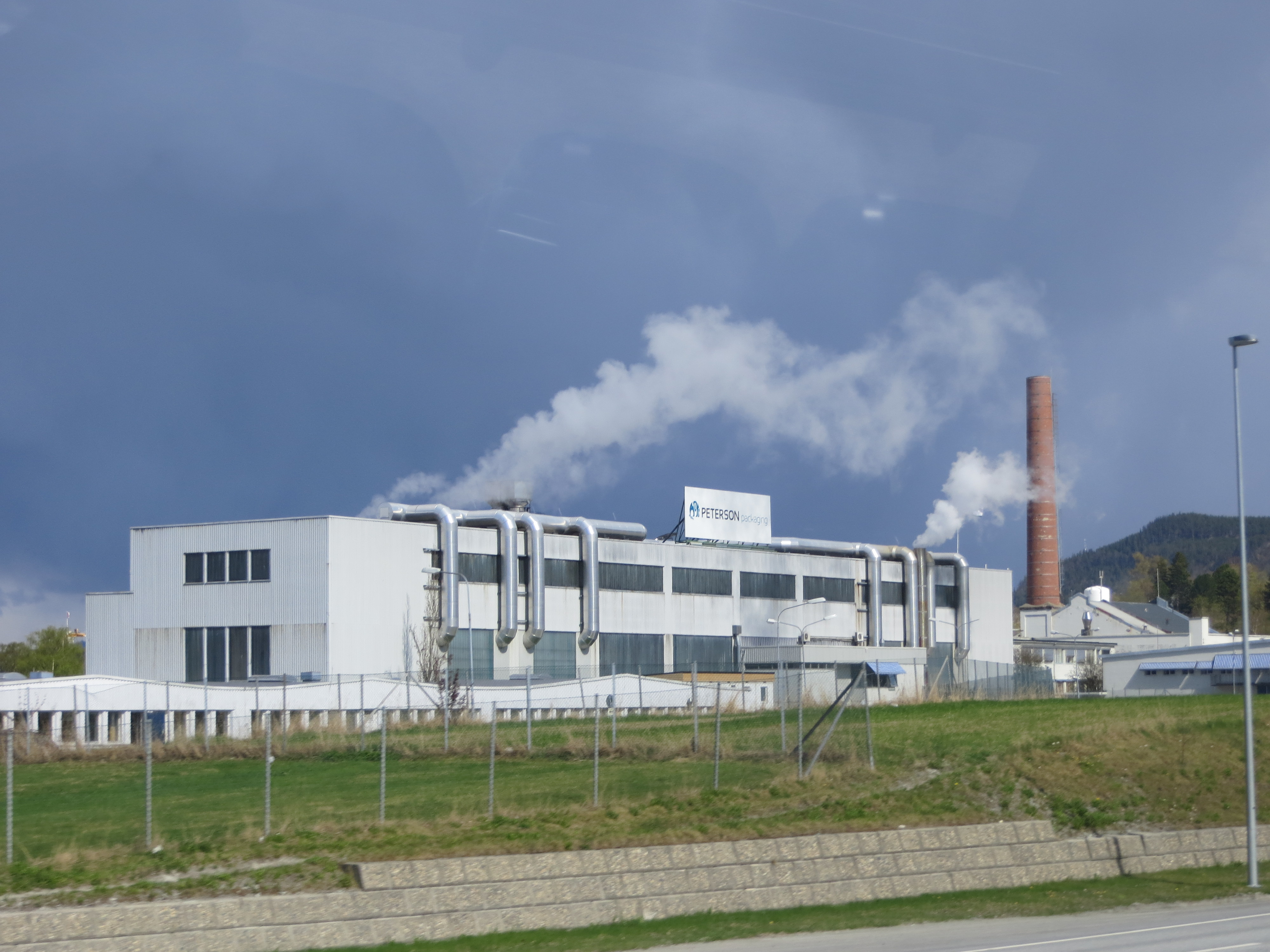 Peterson AS, a traditional paper and cardboard producer, has this production location at Ranheim in Trondheim (Norway)